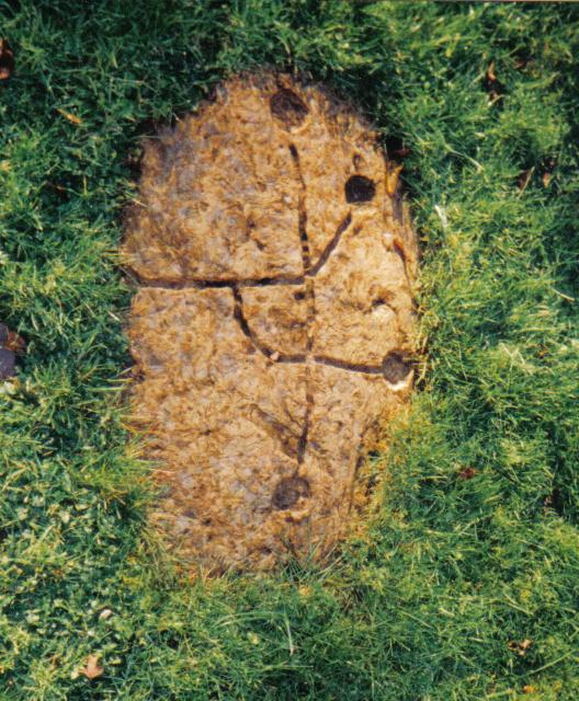 My own photograph taken to illustrate this section of the article